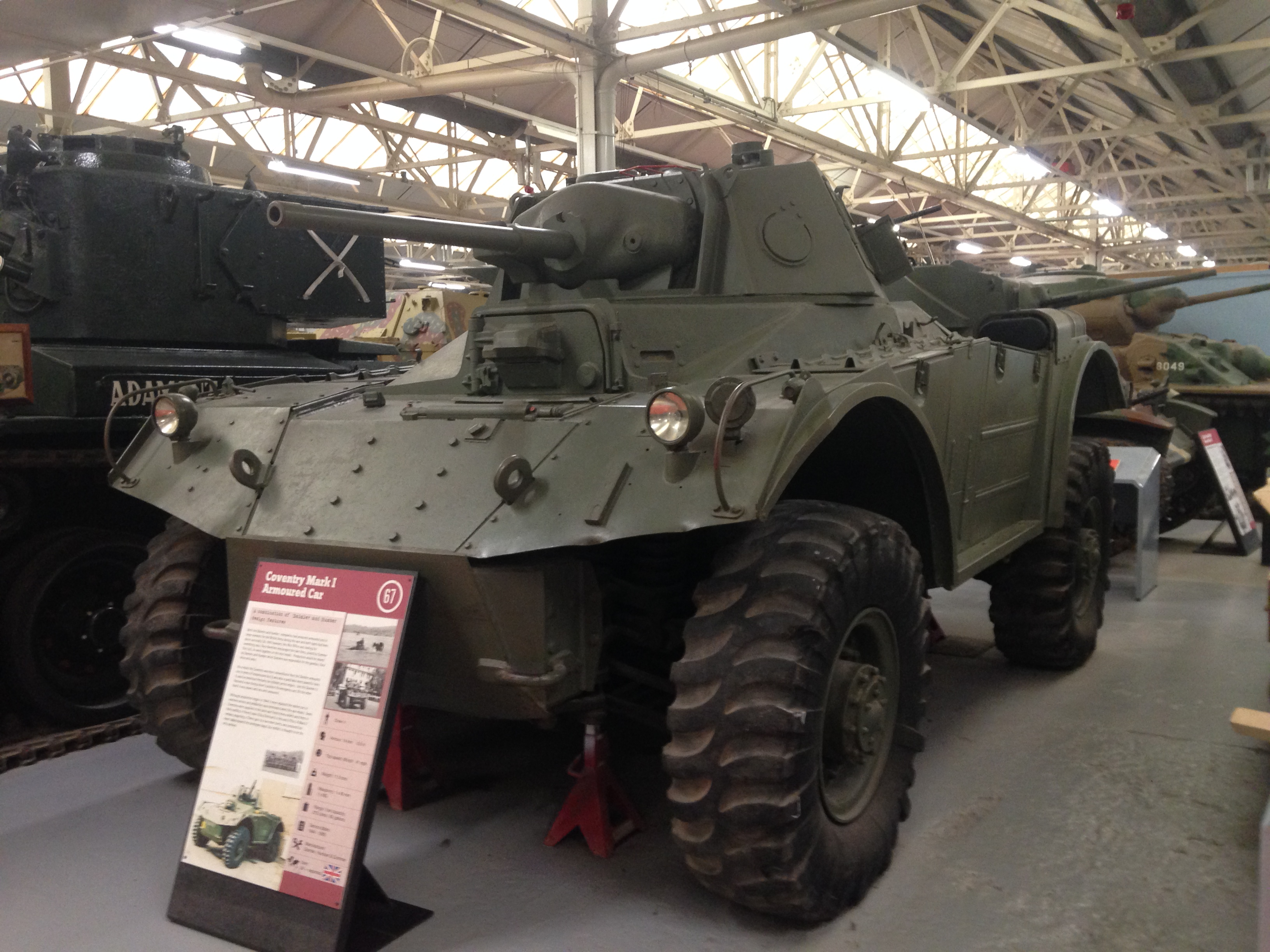 Taken in Bovington Tank Museum